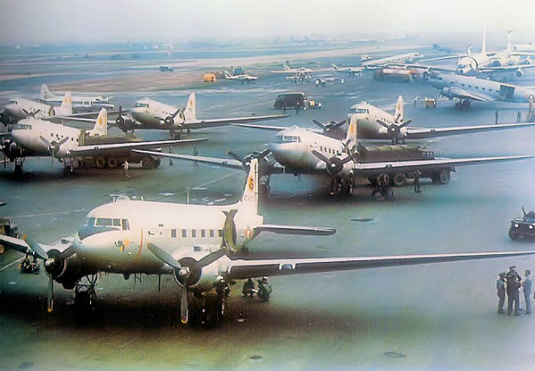 South Vietnamese Air Force C-47s at Tan Son Nhut Air Base.